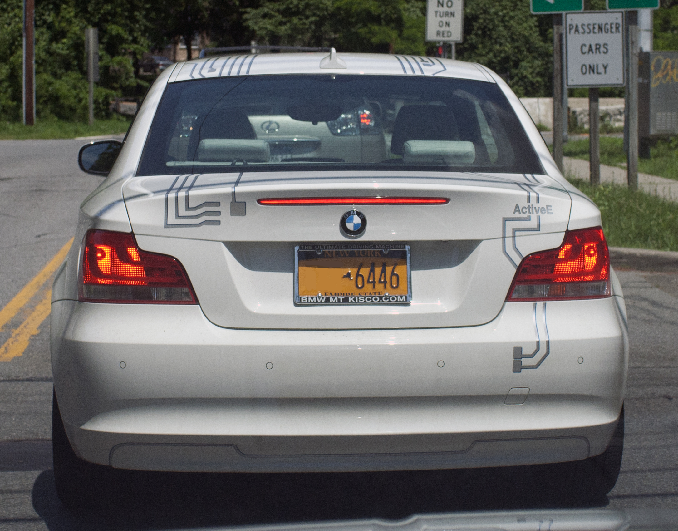 BMW ActiveE electric car prototype